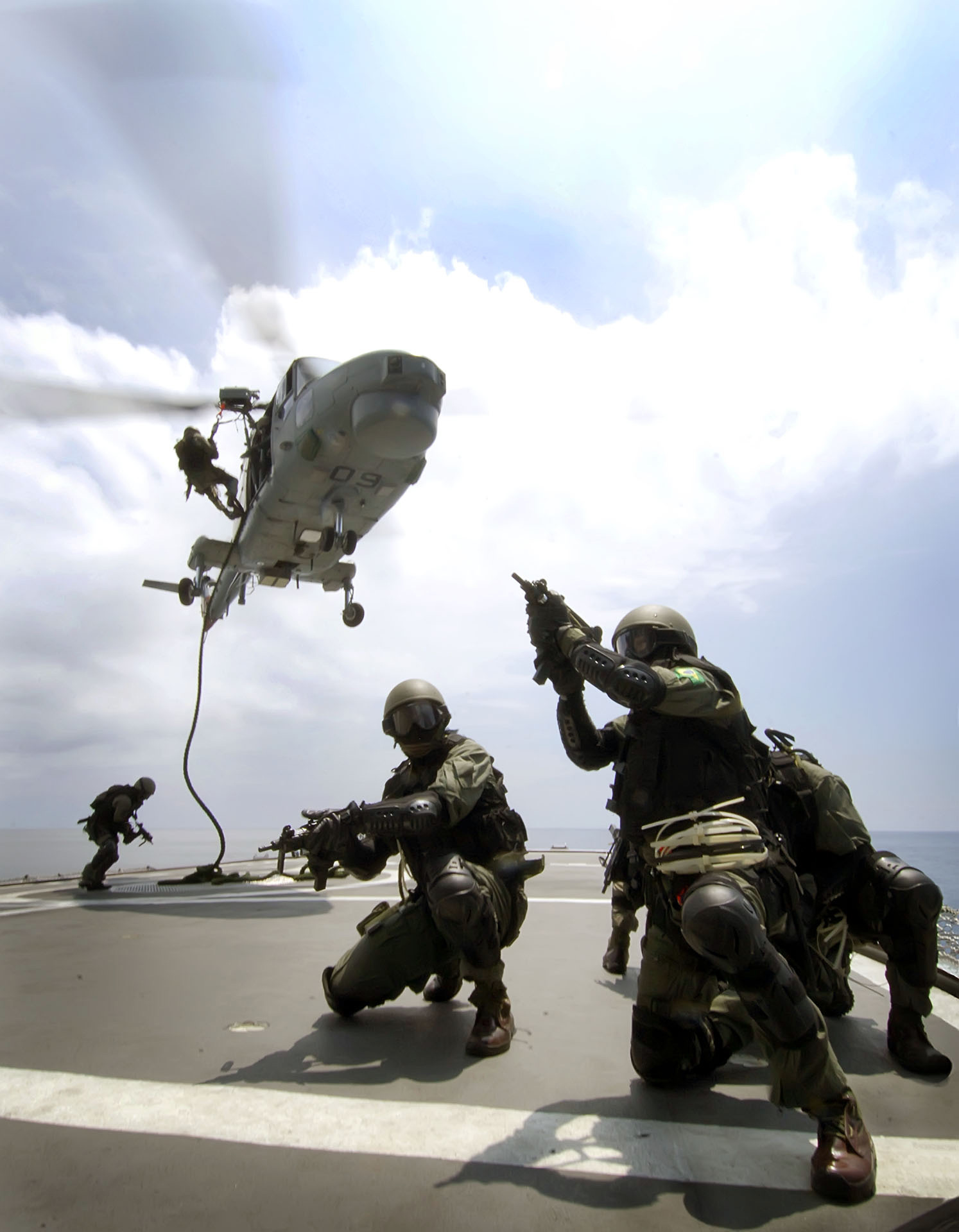 070902-N-1810F-618 CARIBBEAN SEA (Sept. 2, 2007) - A visit, board, search and seizure (VBSS) team attached to Brazil Navy frigate Independencia (F 44) rappel onto their ship from a Brazil Navy Lynx helicopter during PANAMAX 2007. PANAMAX 2007, a training exercise for military and civilian personnel from 19 countries, is co-sponsored by U.S. Southern Command and Panama and is being conducted off the coasts of Panama and Honduras. U.S. Navy photo by Mass Communication Specialist 2nd Class Todd Frantom (RELEASED)